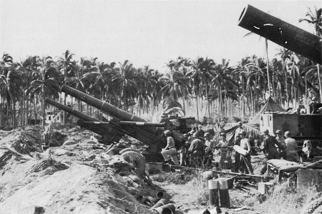 U.S. 8-inch howitzers of the 61st Field Artillery Battalion readied near Tacloban, Leyte, 21 October 1944.